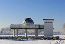 Josef Bresser Observatory